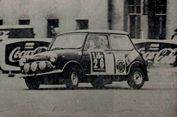 Rauno Aaltonen drives his Mini Cooper S at the 1965 1000 Lakes Rally (Rally Finland).